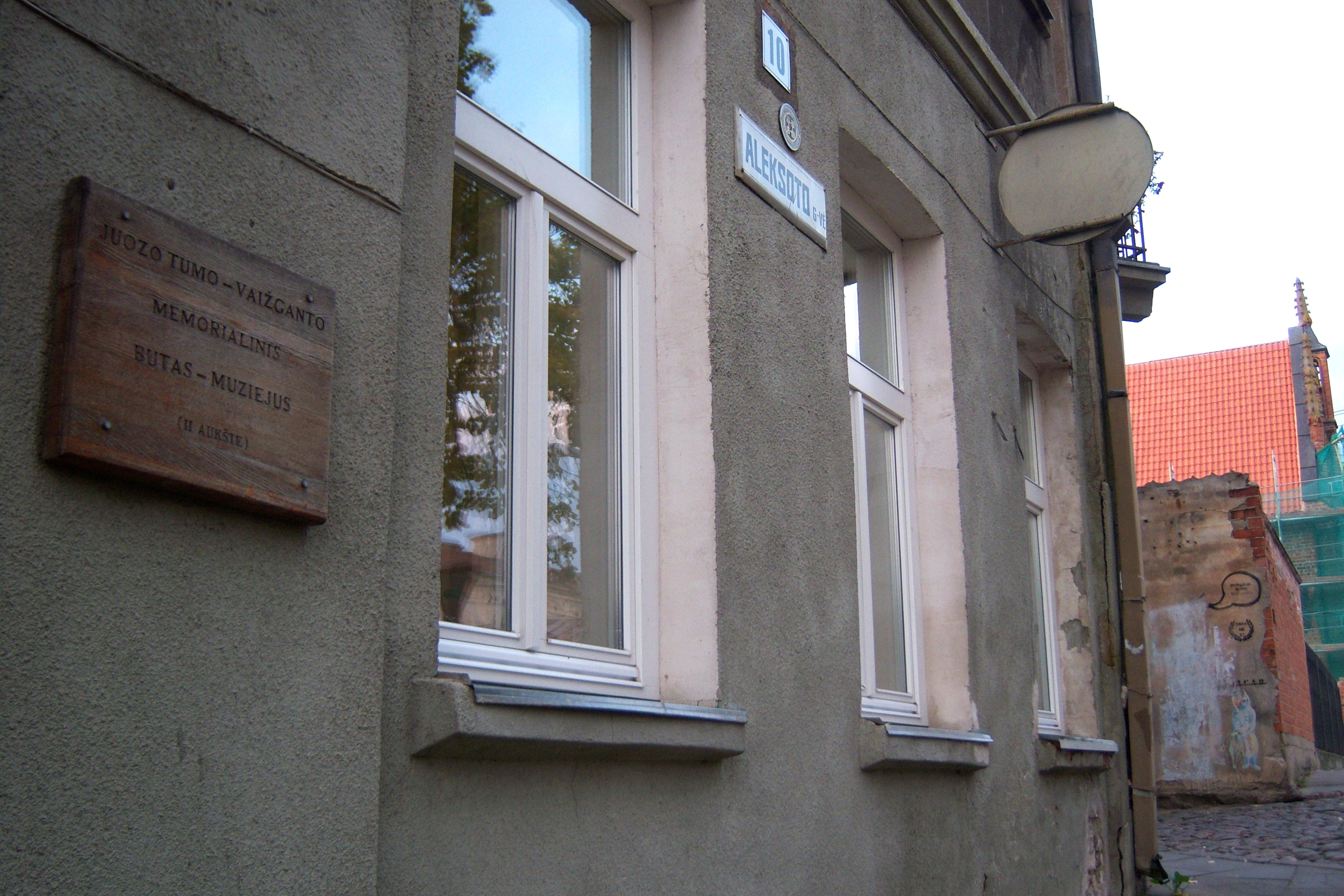 Memorial museum of Vaižgantas, Aleksoto g. 10, Kaunas, Lithuania.